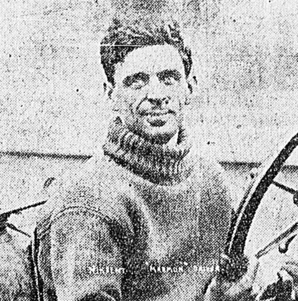 Joseph August Nikrent (4 August 1879 Detroit, Michigan – 25 July 1958 Los Angeles, California) was an American racecar driver. This is a 1911 newspaper publicity photo.